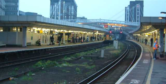 East Croydon railway station - England - View of Platforms - Evening - Photo by Tagishsimon - 270404